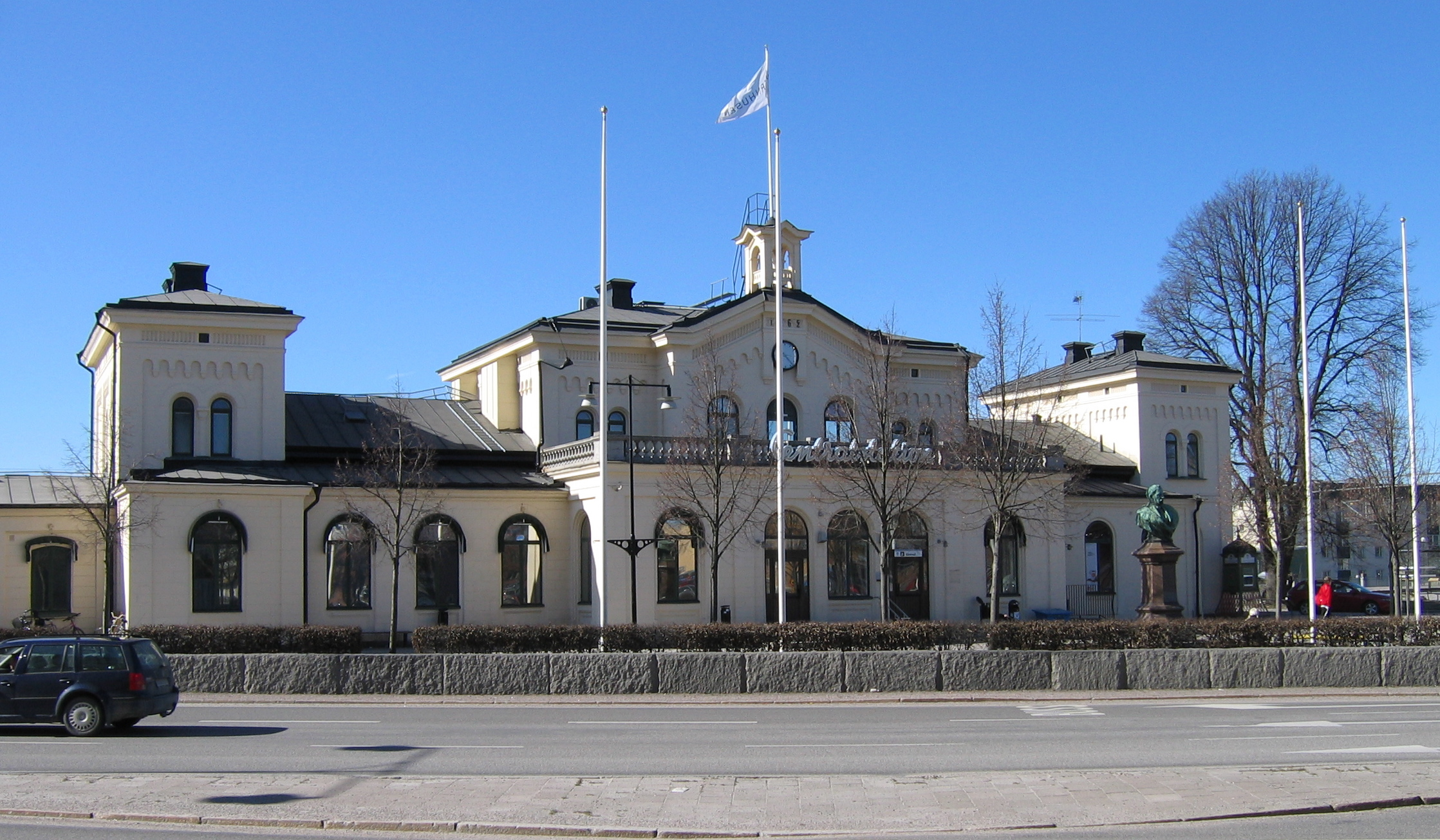 Örebro Central Station, built in 1862. Architect: Adolf W. Edelsvärd.